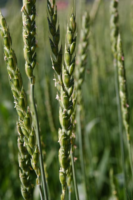 Flowering Triticum spelta